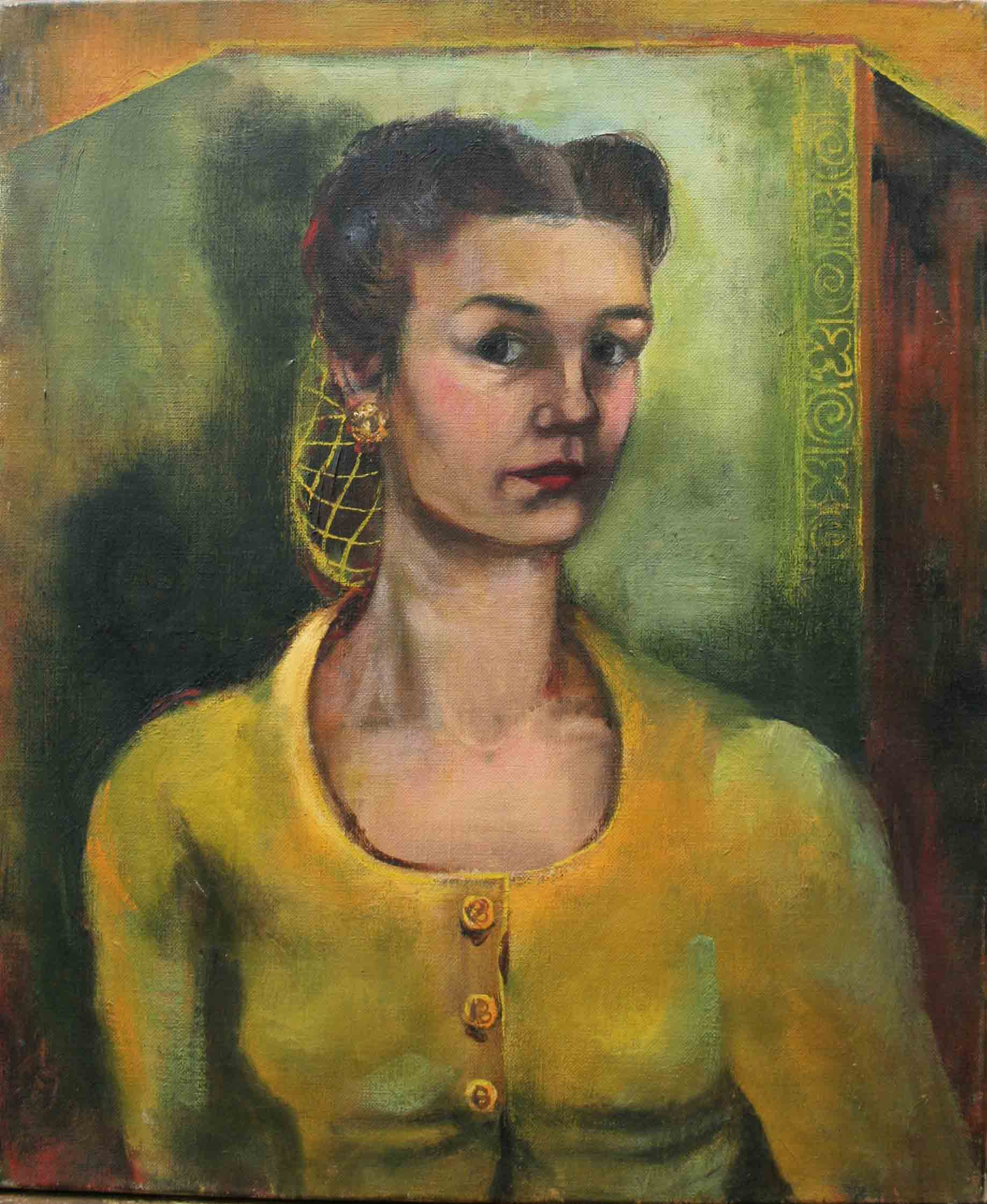 Self-portrait of Margarete Berger-Hamerschlag, around 1948 (51x61 cm).